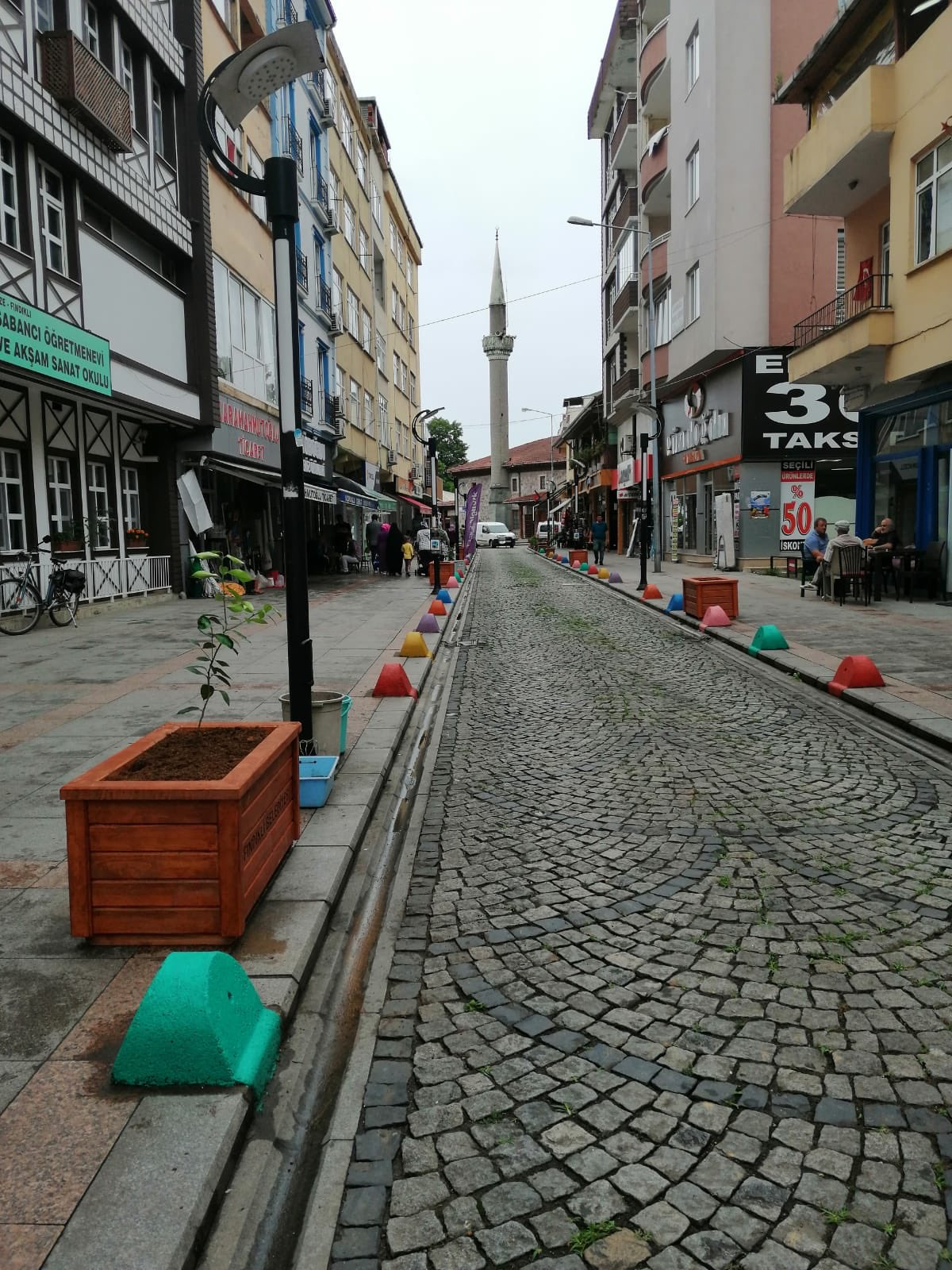 Fındıklı Rize